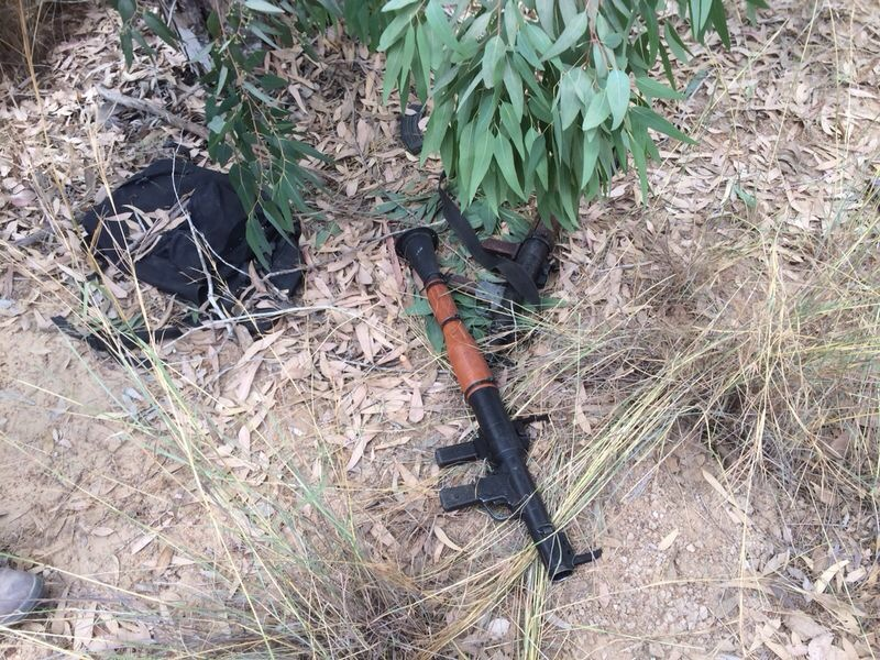 These weapons were seized from terrorists attempting to carry out a massacre in an Israeli community. The terrorists infiltrated Israel through an underground tunnel.